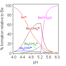 Species distribution for beryllium hydrolysis